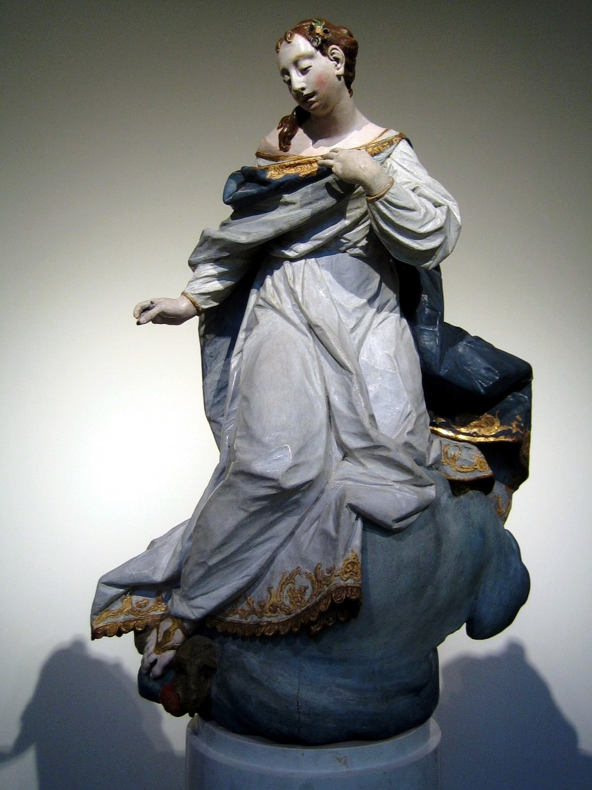 Ignaz Günther: Mary Immaculate, Munich c. 1750/1760, painted limewood